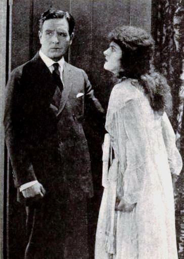 Still from the American film Society Snobs (1921) with Conway Tearle and Martha Mansfield, on page 71 of the March 26, 1921 Exhibitors Herald.